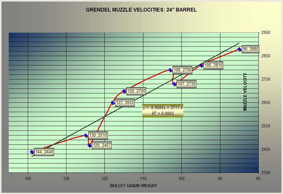 6.5 Grendel cartridge muzzle velocity from 24" barrel as a function of bullet weight.